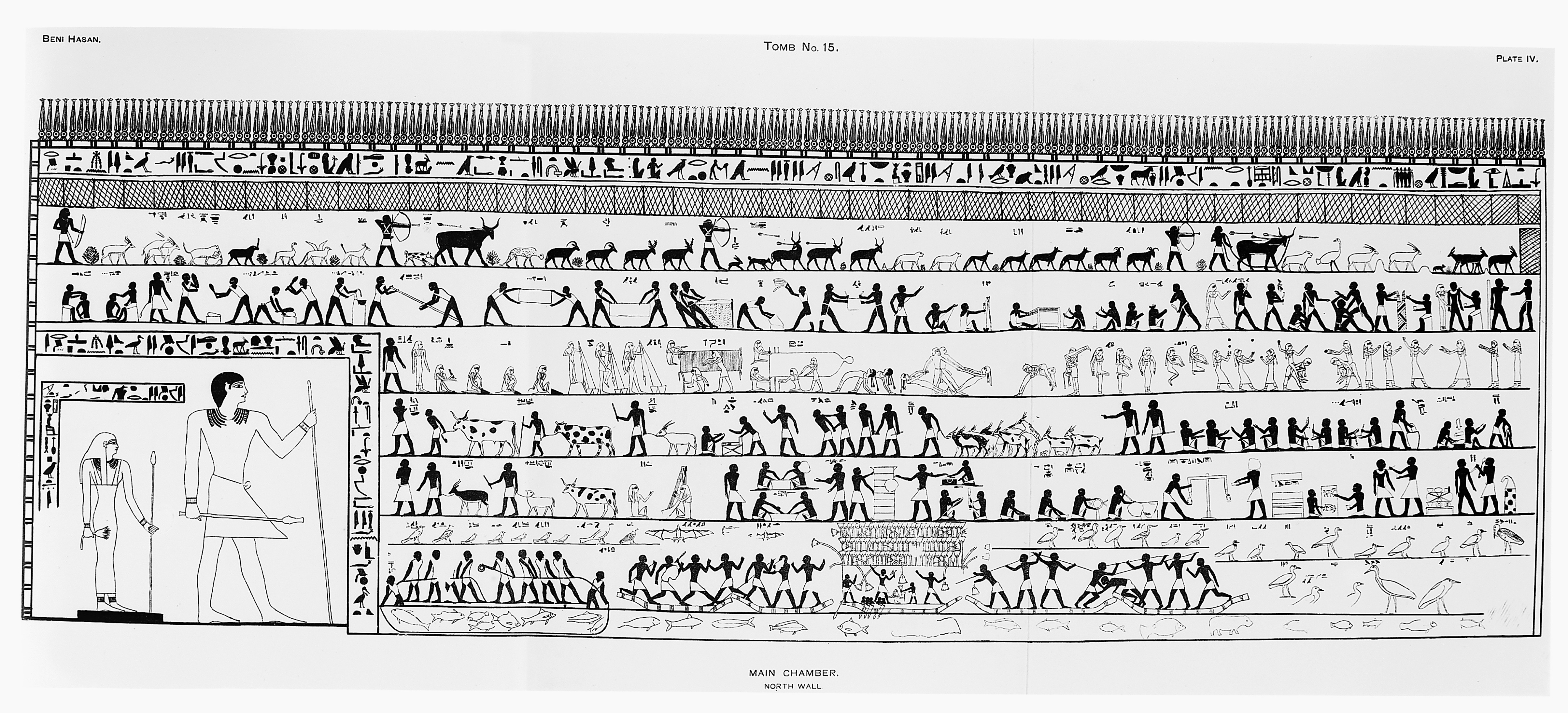 North wall of main chamber of tomb 15 at Beni Hasan. Wellcome Images Keywords: egyptology